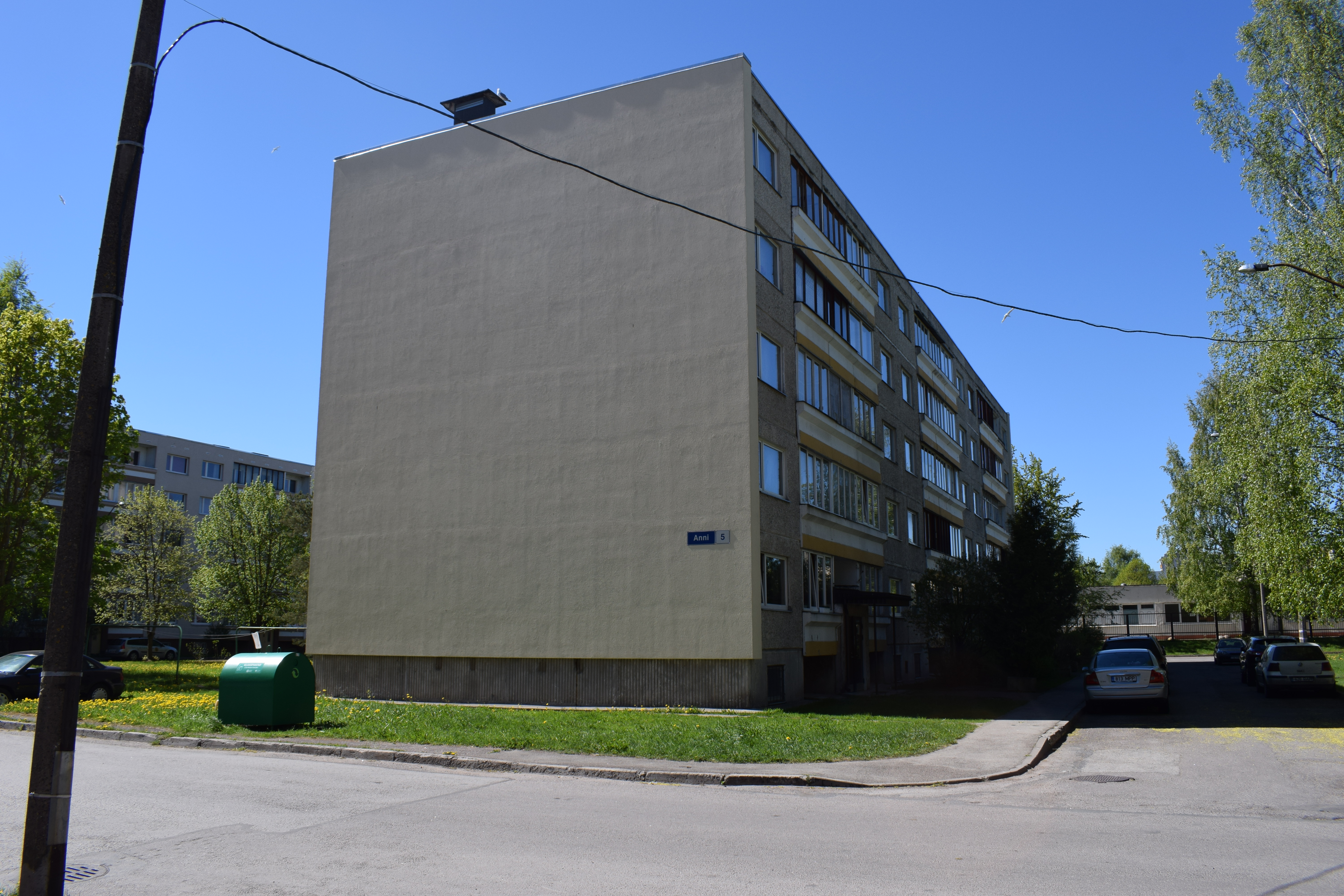 Anni street